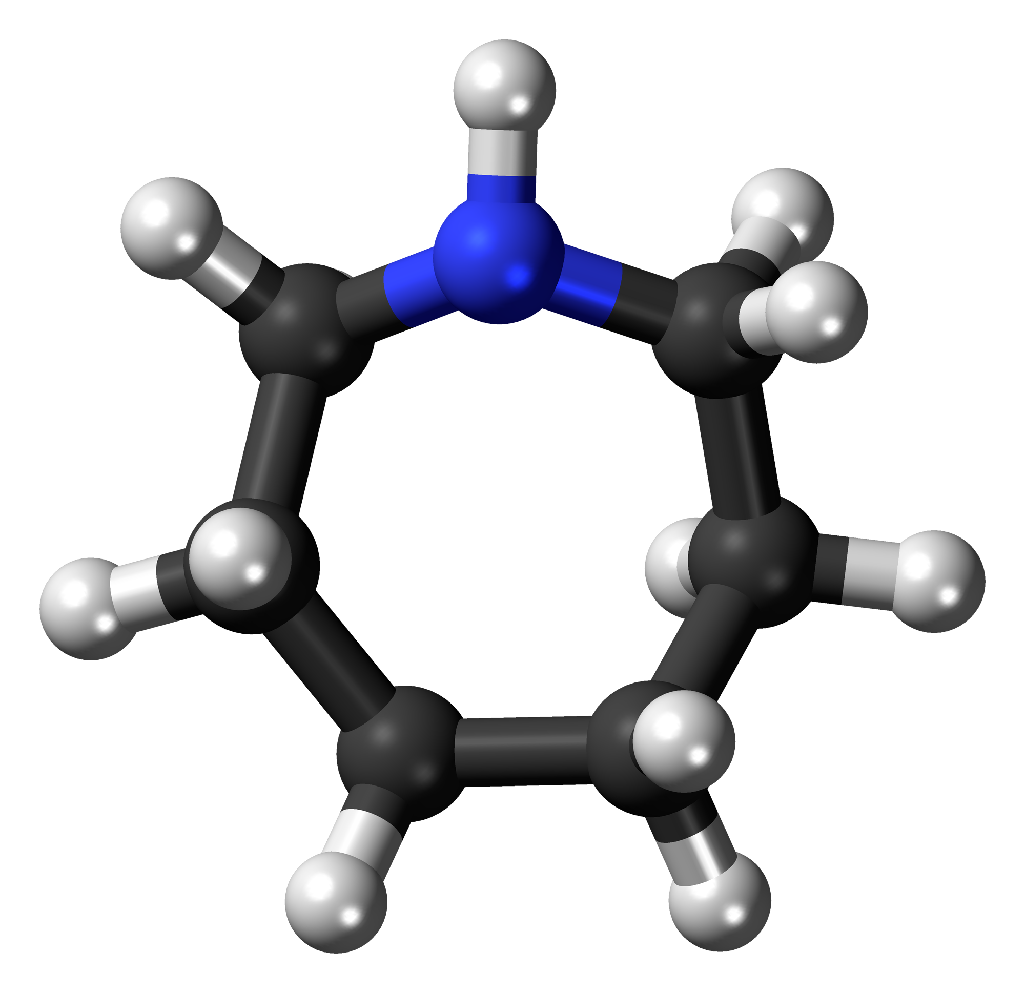 Ball-and-stick model of the azepane molecule, a nitrogen heterocycle. Colour code: Carbon, C: black Hydrogen, H: white Nitrogen, N: blue